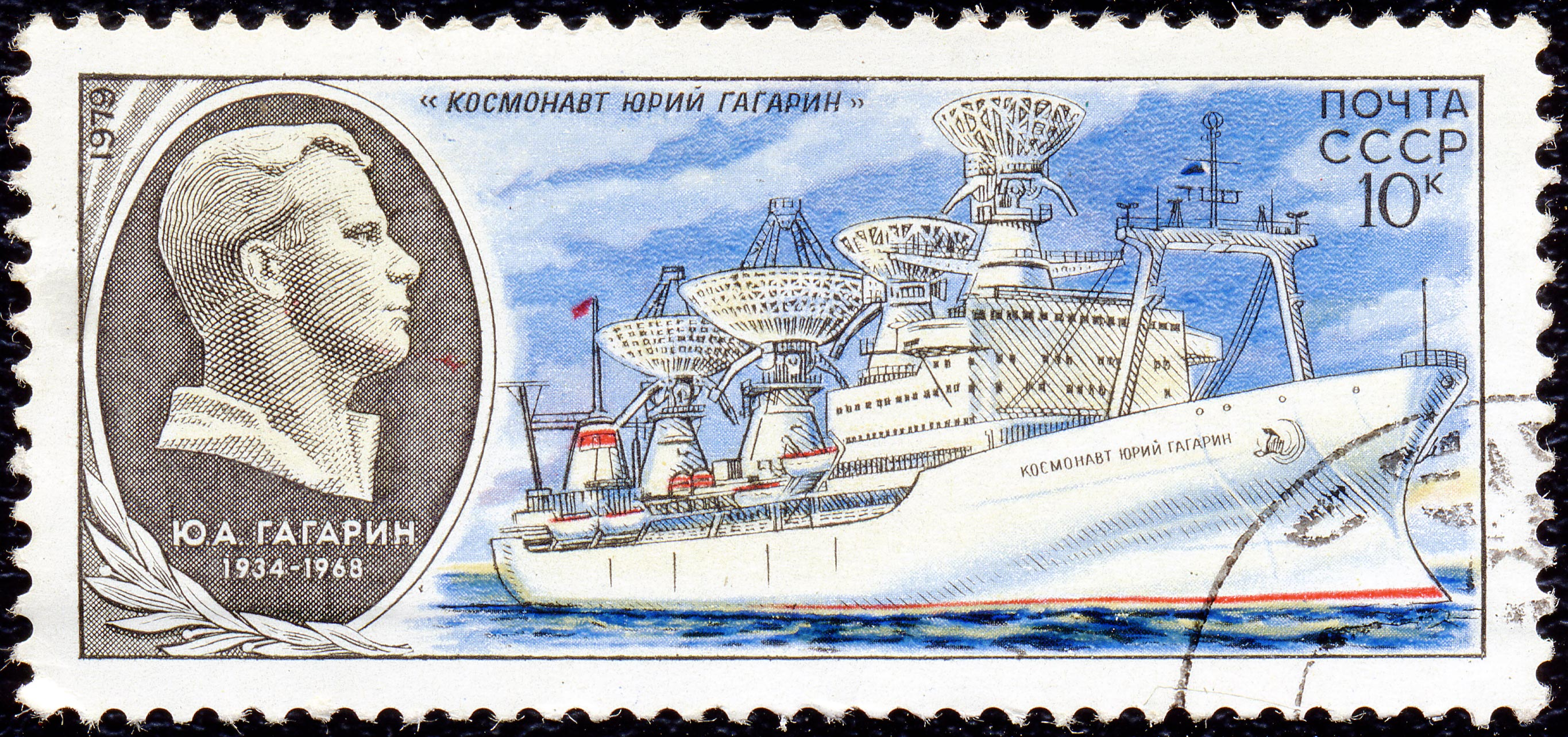 USSR postage stamp. 1979. Research vessel "Cosmonaut Yury Gagarin" and portrait of Yury Gagarin